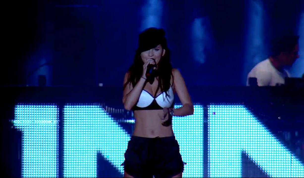 Inna's performance at Barbarella 2013 in Santo Domingo, Dominican Republic